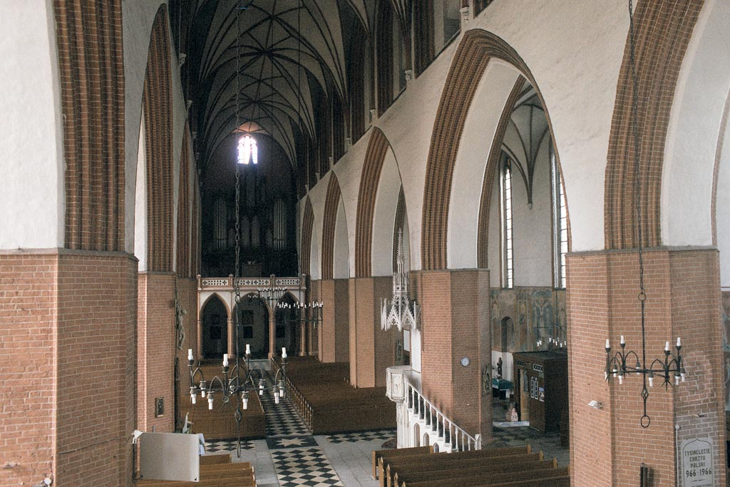 Kwidzyn (Poland, Pomeranian Voivodship), nave of Cathedral seen from upper storey of presbytery